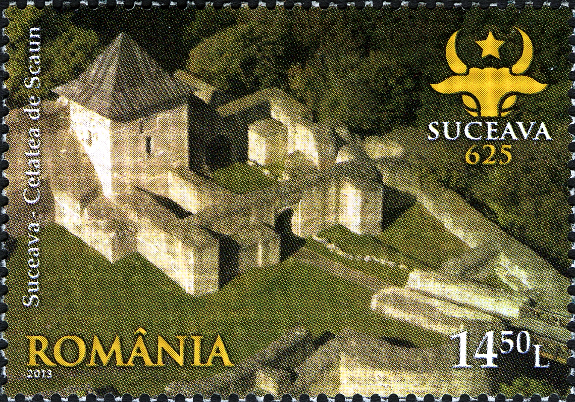 Seat Fortress of Suceava – Suceava 625 anniversary stamp (2013).